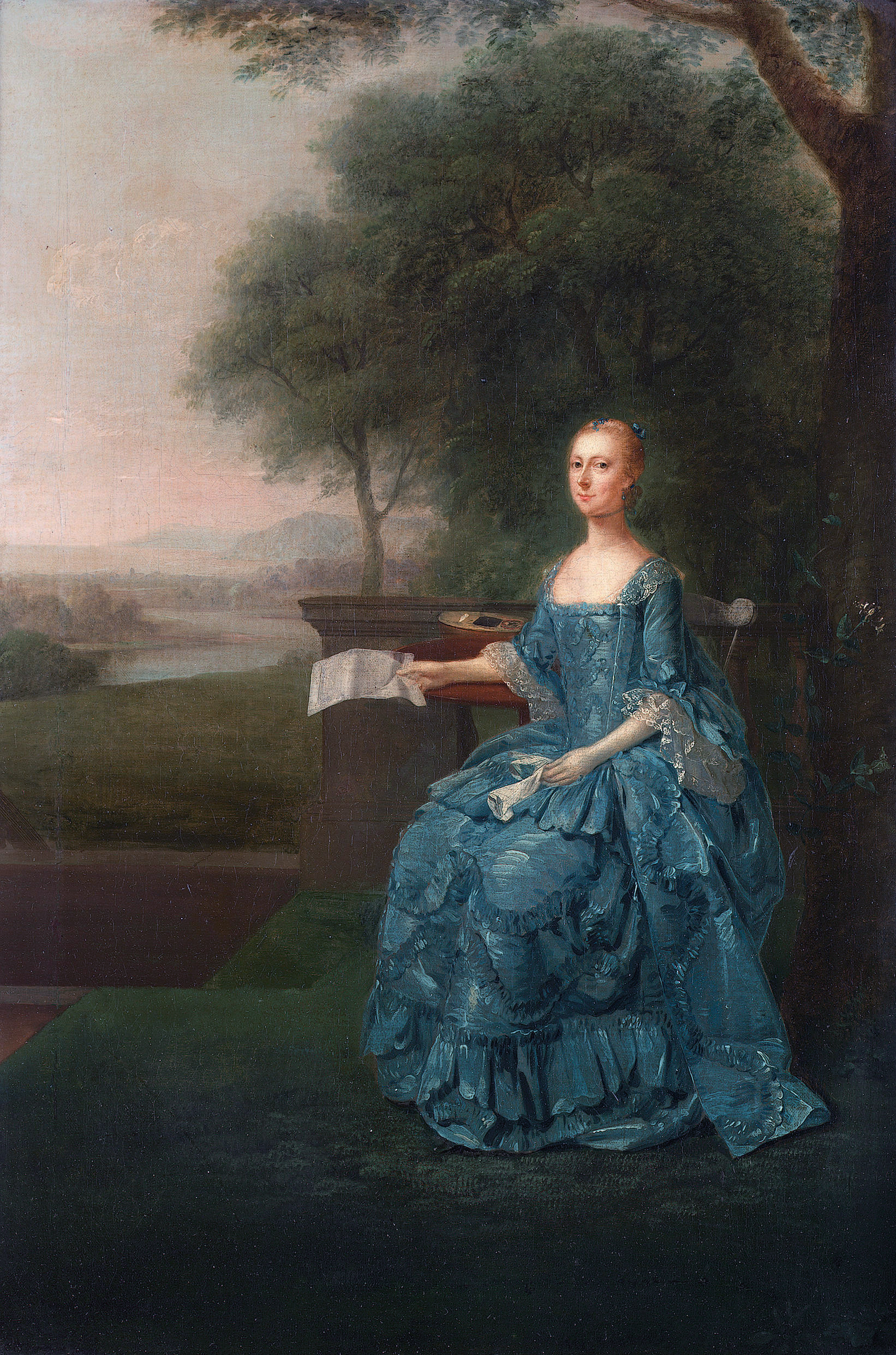 Anne Streatfeild, née Sidney, natural daughter of the 7th Earl of Leicester and wife of Henry Streatfeild oil on canvas 61 x 42.5 cm signed b.r.: A.Devis / 1756